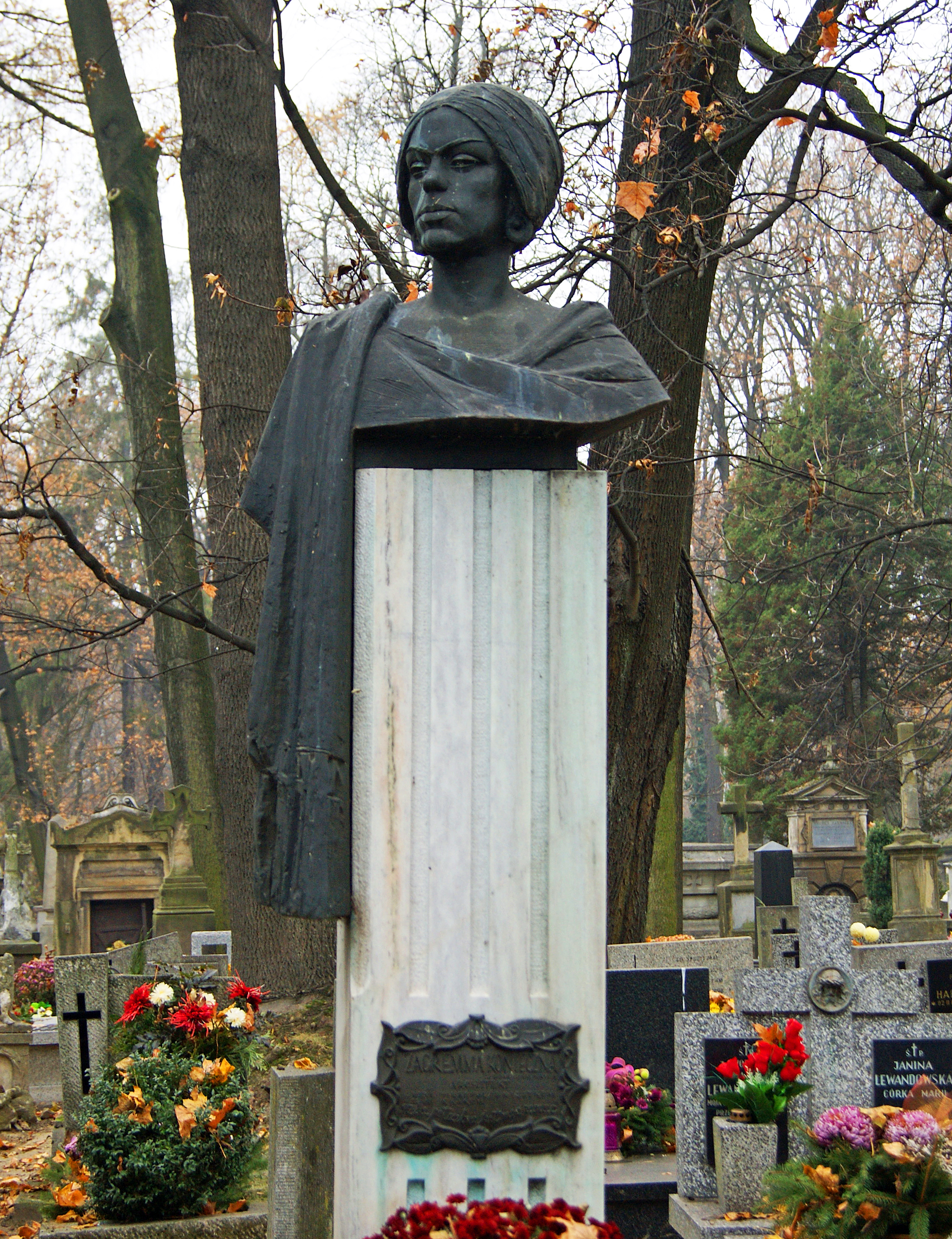 Zagremma Konieczna memorial (by sculptor Marian Konieczny), Rakowice Cemetery, 26 Rakowicka street, Krakow, Poland